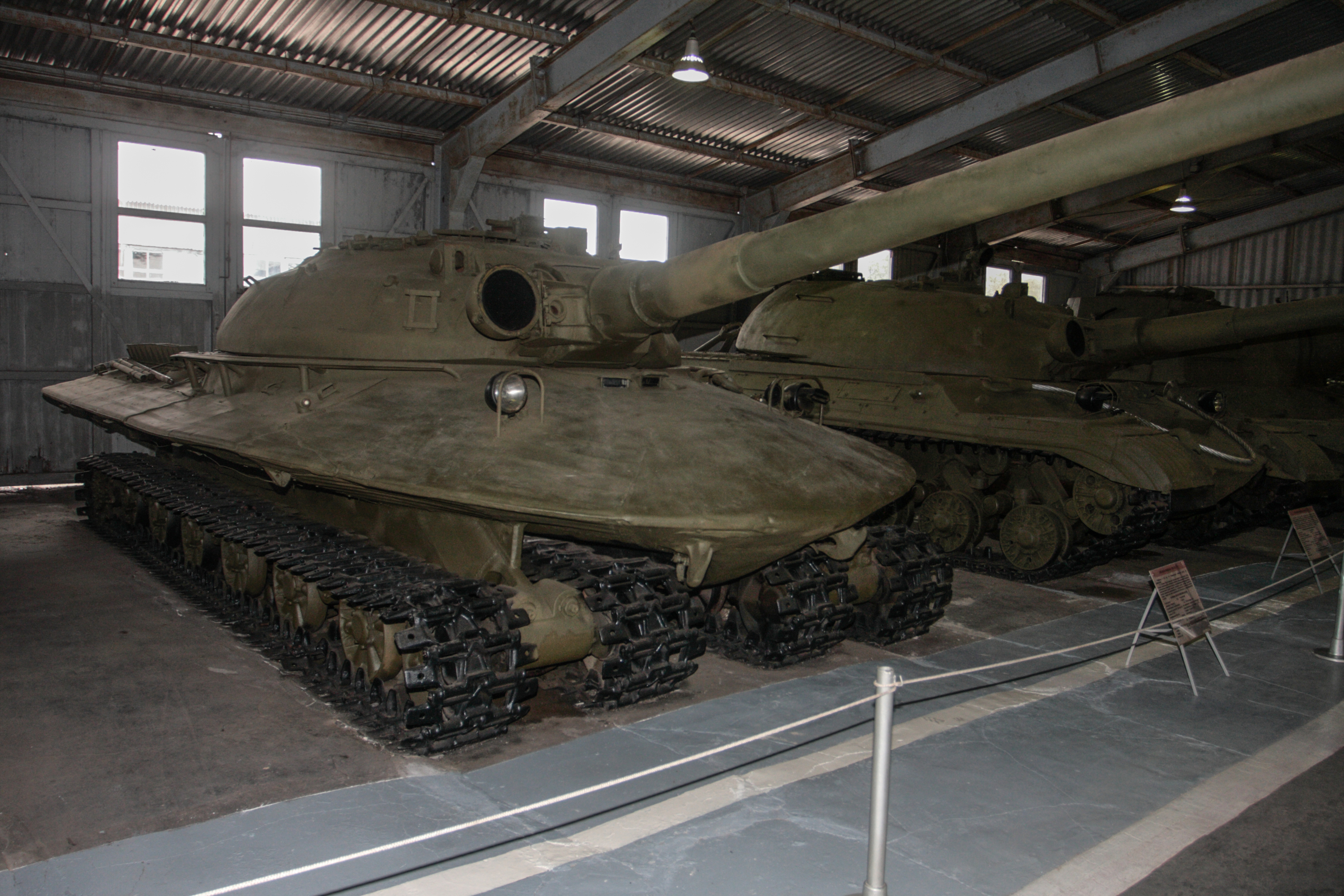 Object 279. Heavy tank. Kubinka tank museum